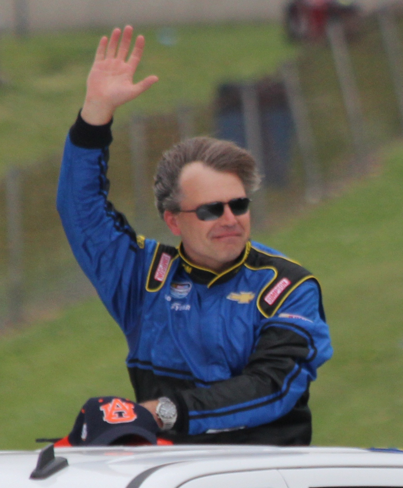 NASCAR Nationwide Series driver Bobby Reuse waves to the crowd at the 2014 Gardner Denver 200 event at Road America.